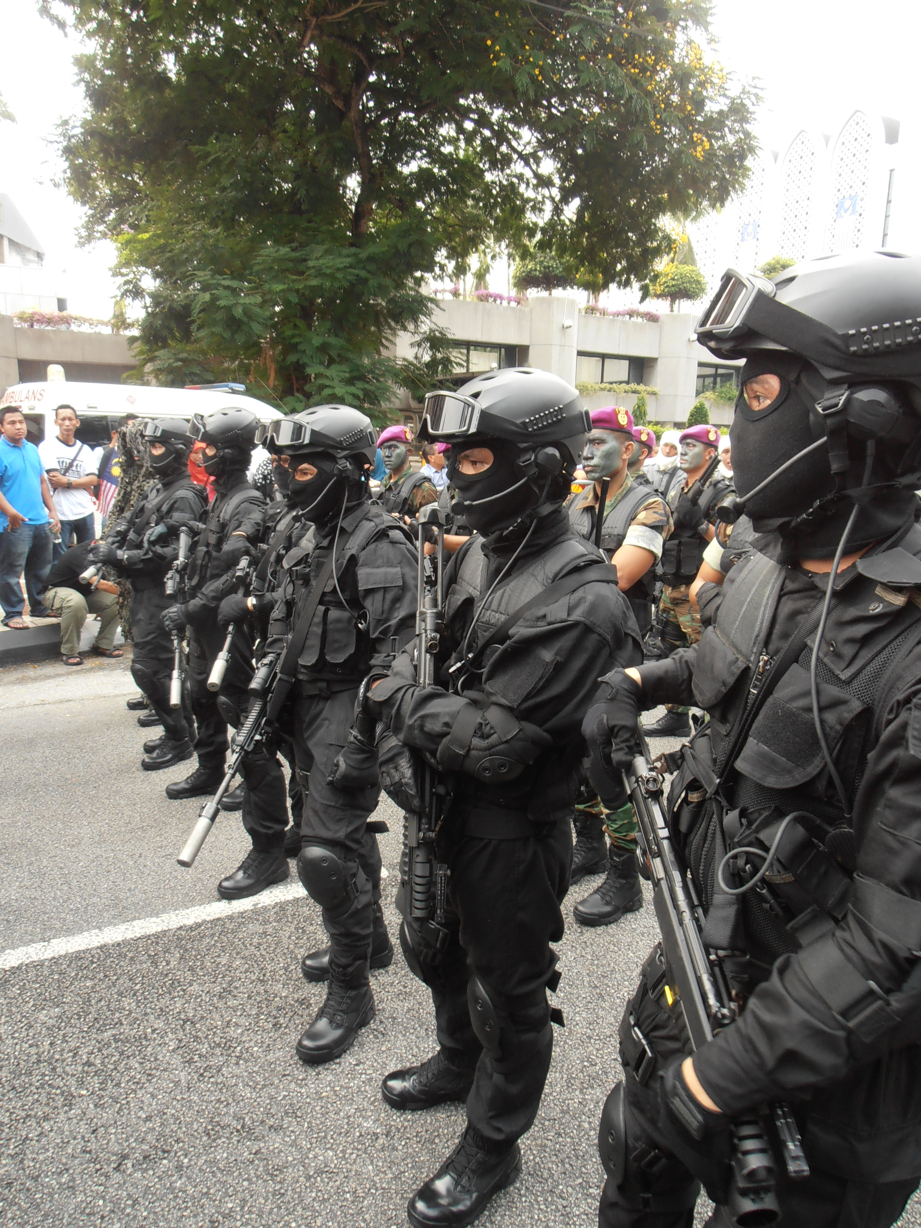 The navy PASKAL tactical strike team personnels prepare to parade during the 57th National Day Parade of Malaysia at Merdeka Square, Kuala Lumpur. One of them arms with HK MP5A5 submachine gun with M203P grenade launcher.